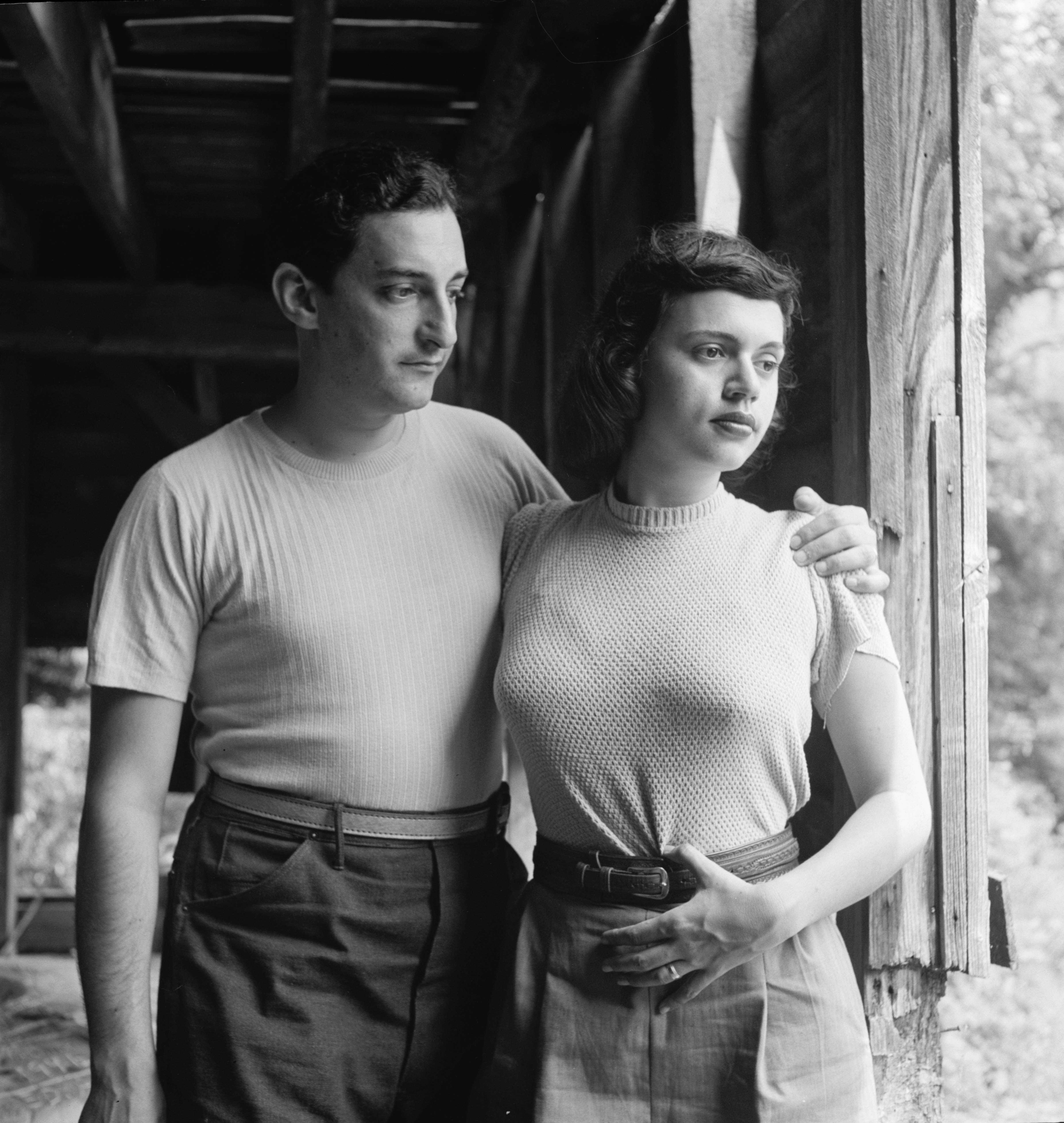 Portrait of Herb Abramson and Miriam Abramson, Flatbrookville, N.J., ca. 1947